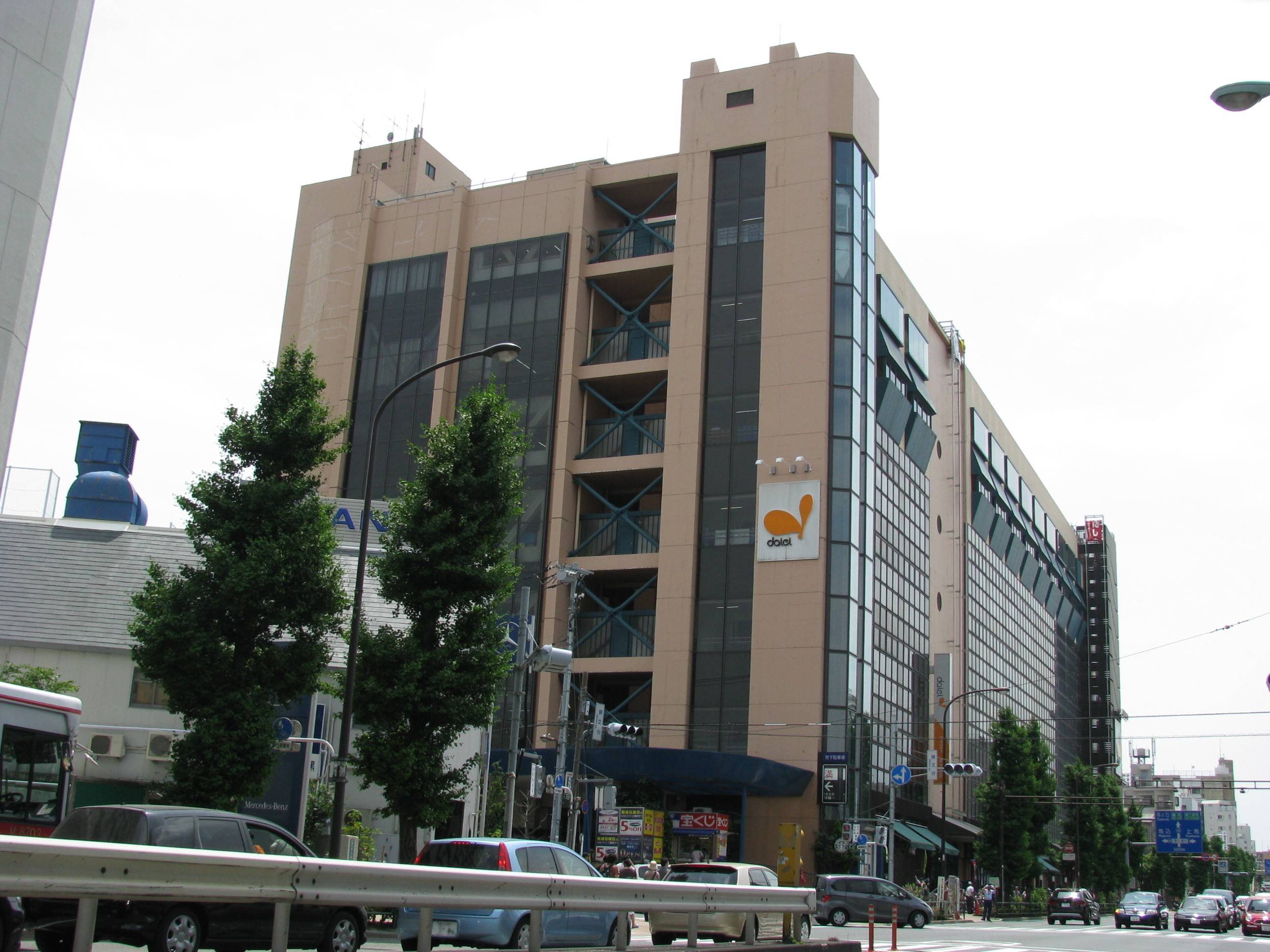 Himonya store of Daiei. This place is Himonya in Megro, Tokyo, Japan.